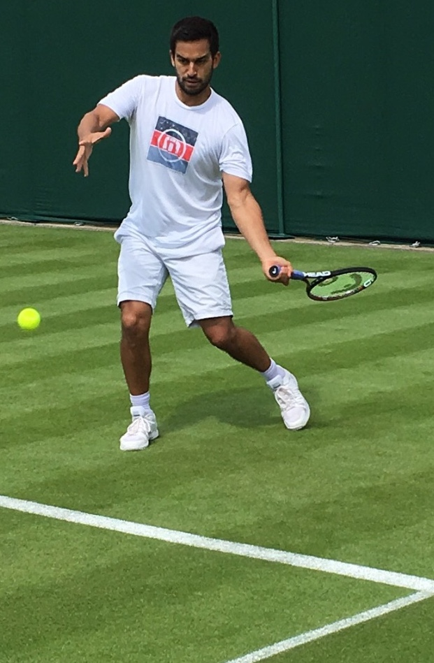 Treat Huey at Wimbledon in 2016